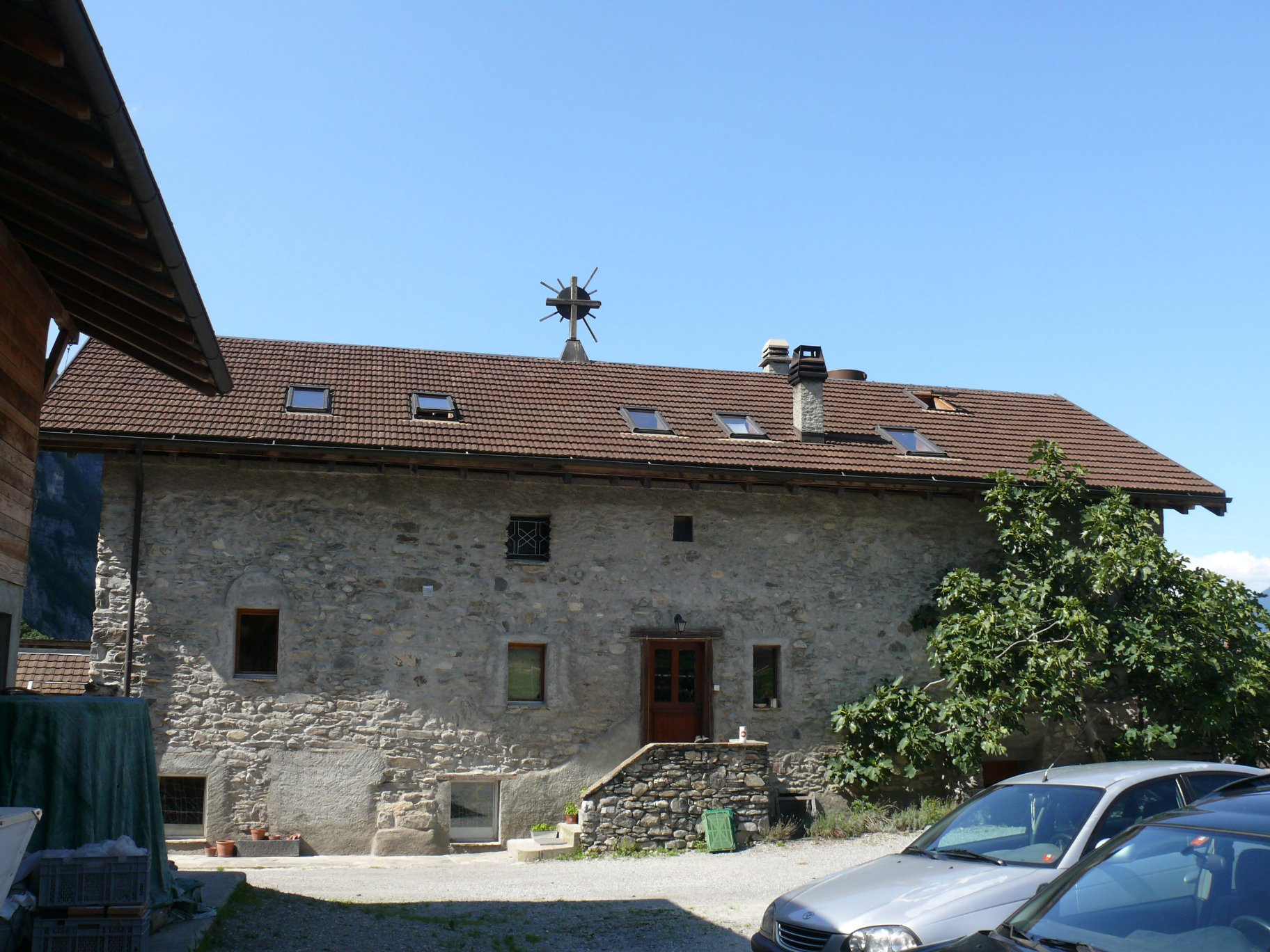 The house of fraternity Eucharistein at Epinassey (Valais, Switzerland).